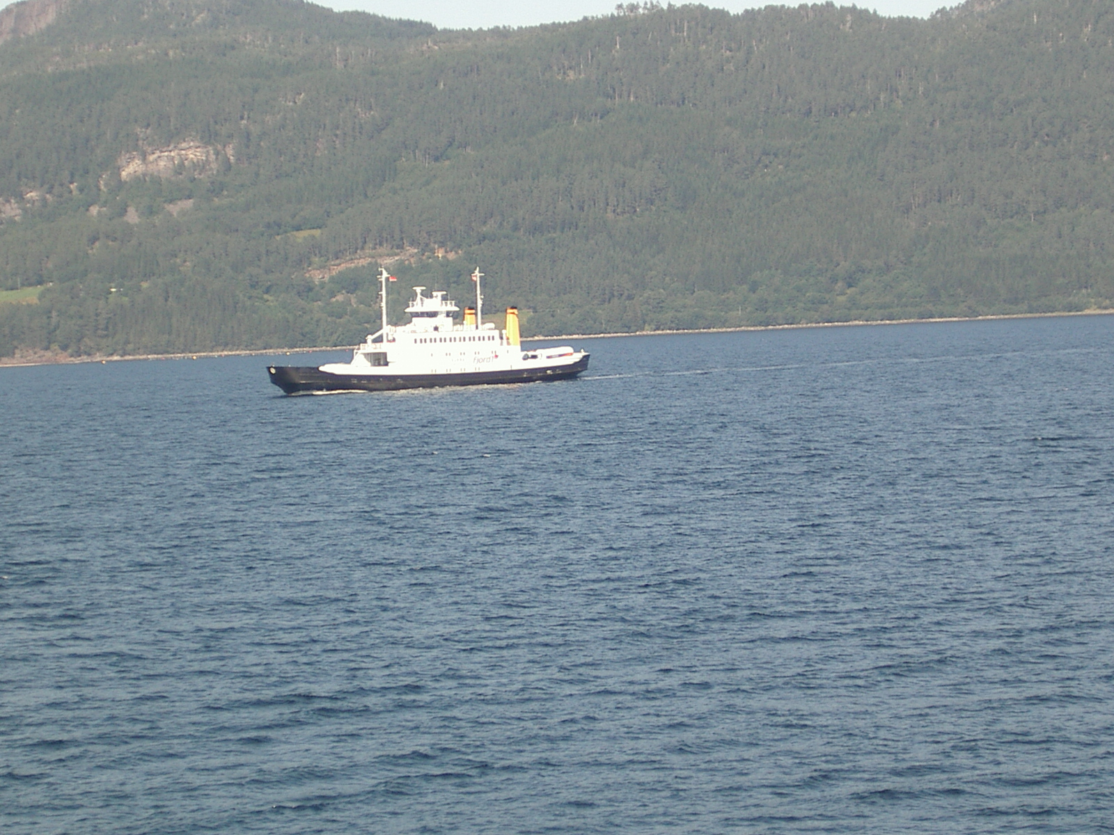 MF Halsa on the ferry route Halsa - Kannestraum